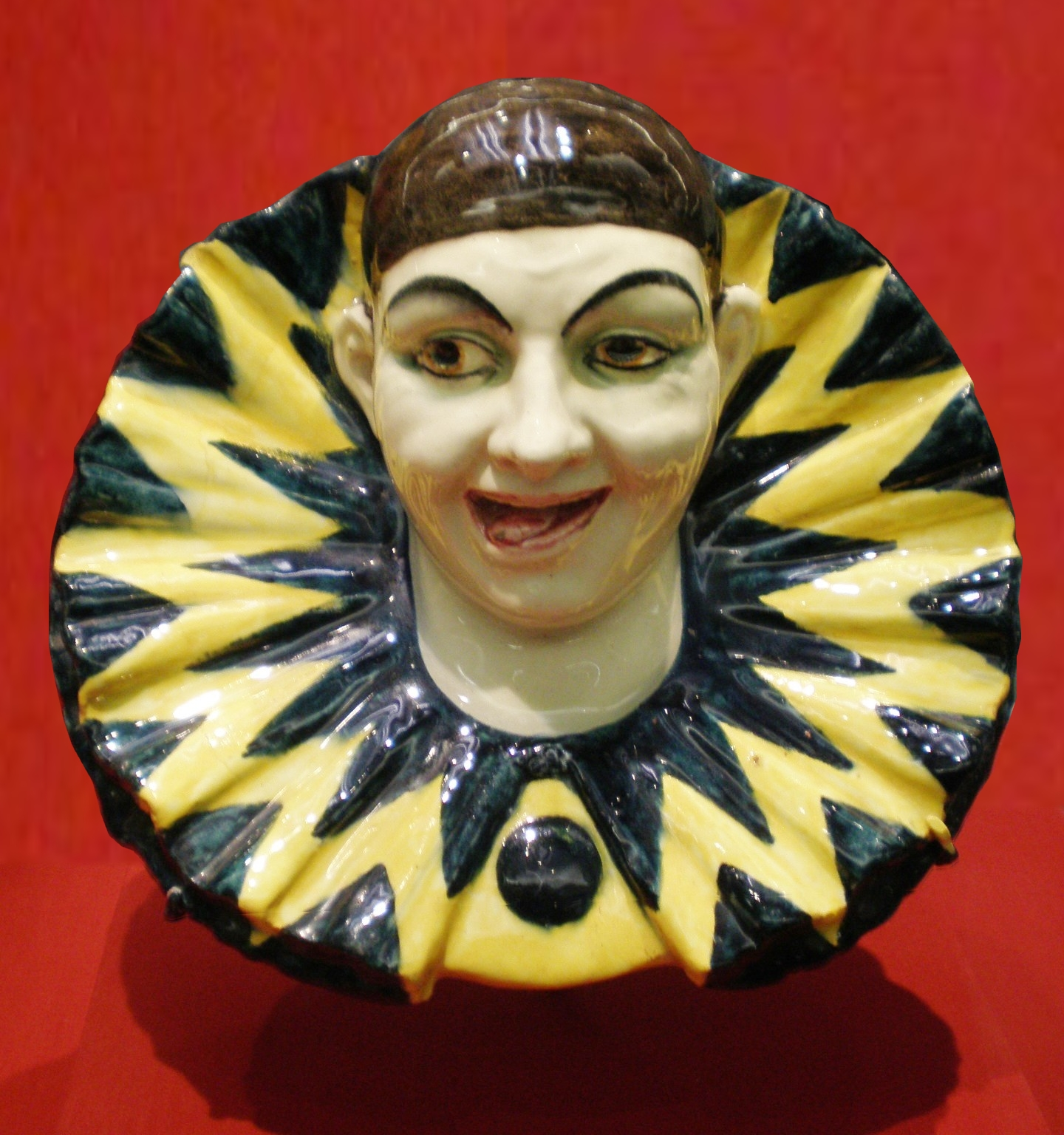 Pierrot wall pocket, manufactured by the Jerome Massier fils factory, Vallauris, France, 1873-1900. Private collection, on display at the time temporarily in the international terminal of San Francisco International Airport (SFO). L2007.3902.012